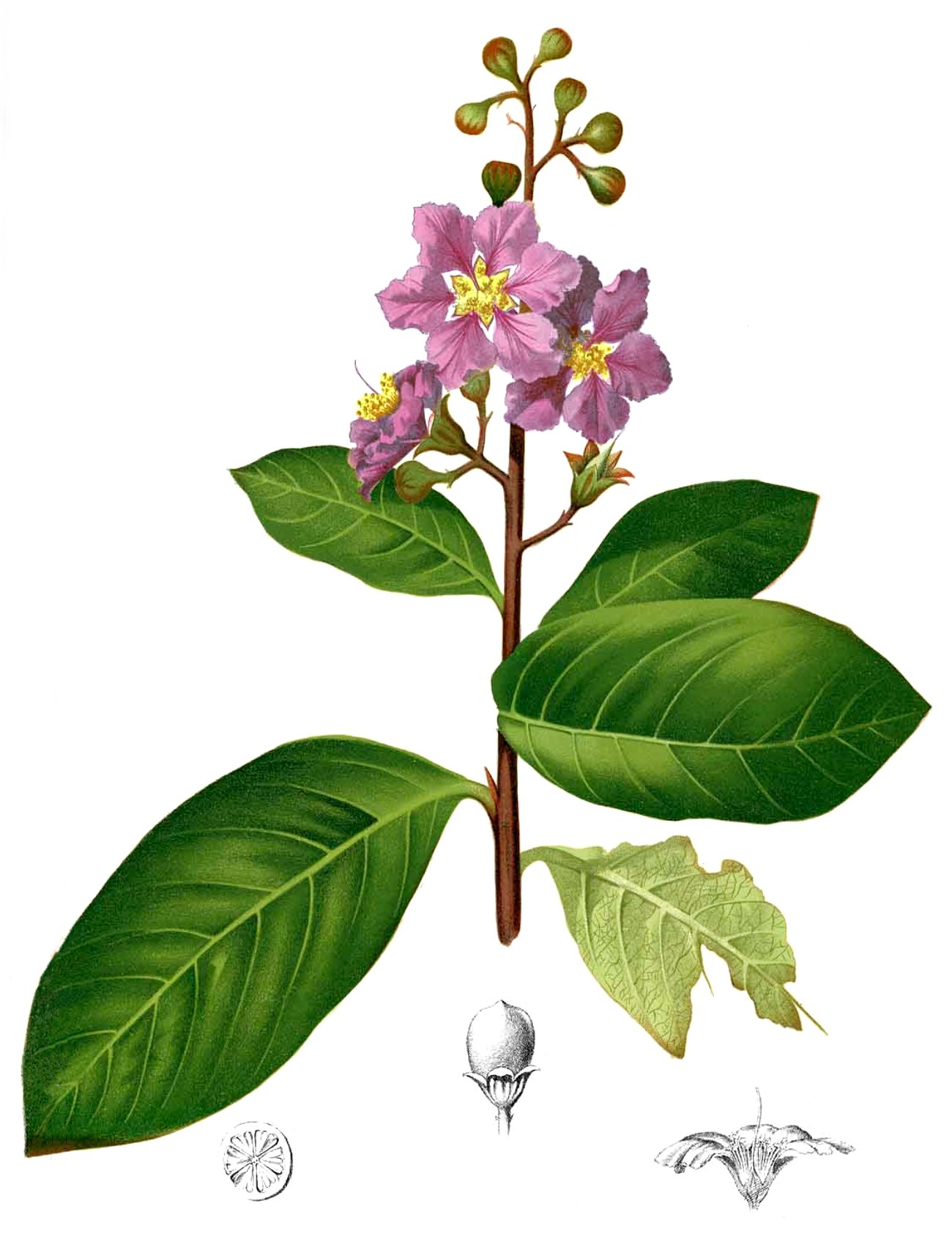 Plate from book, Langerstroemia speciosa (syn. L. reginae)